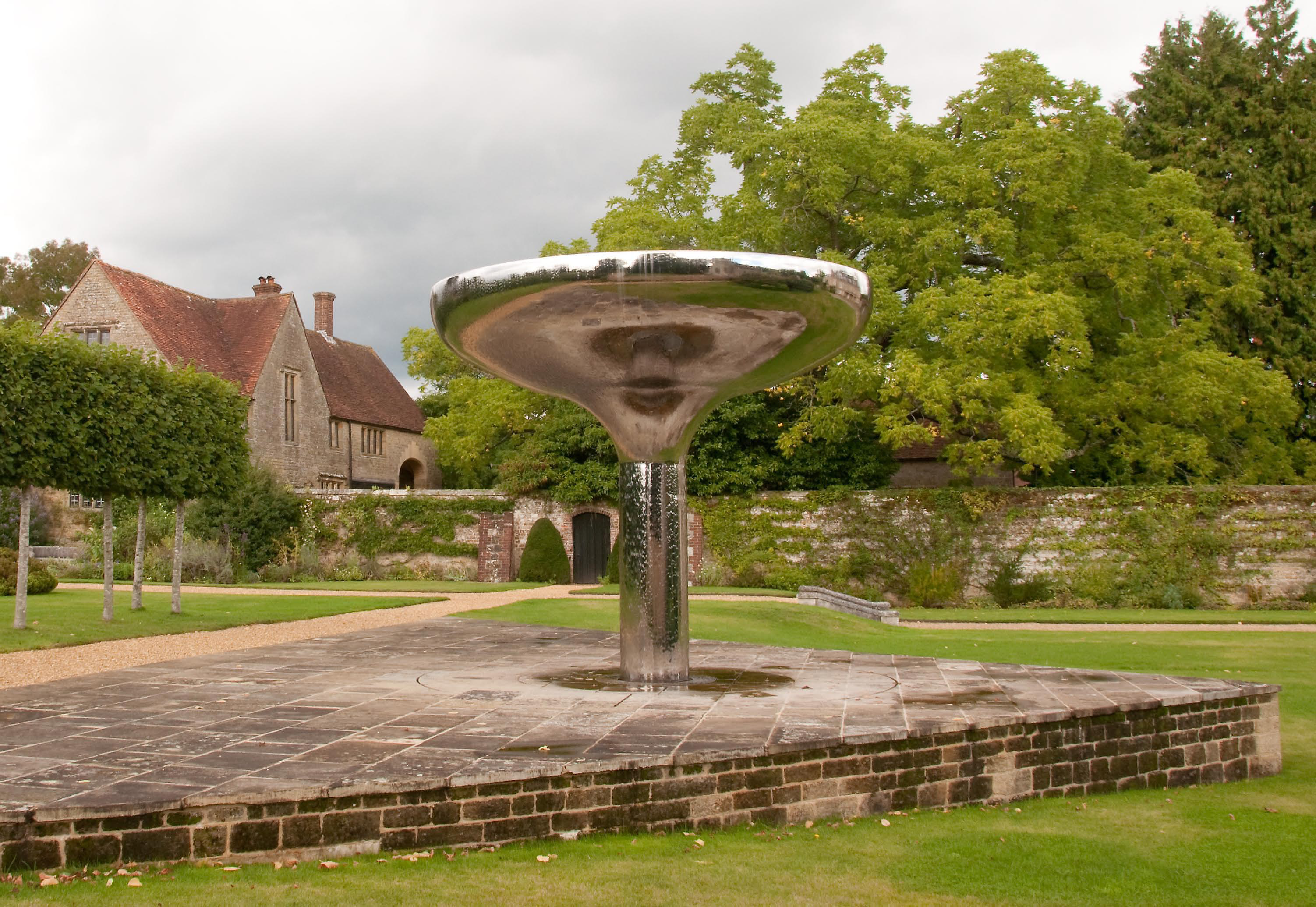 Seen looking North from All Hallows Churchyard the Fountain in the garden of Woolbeding House